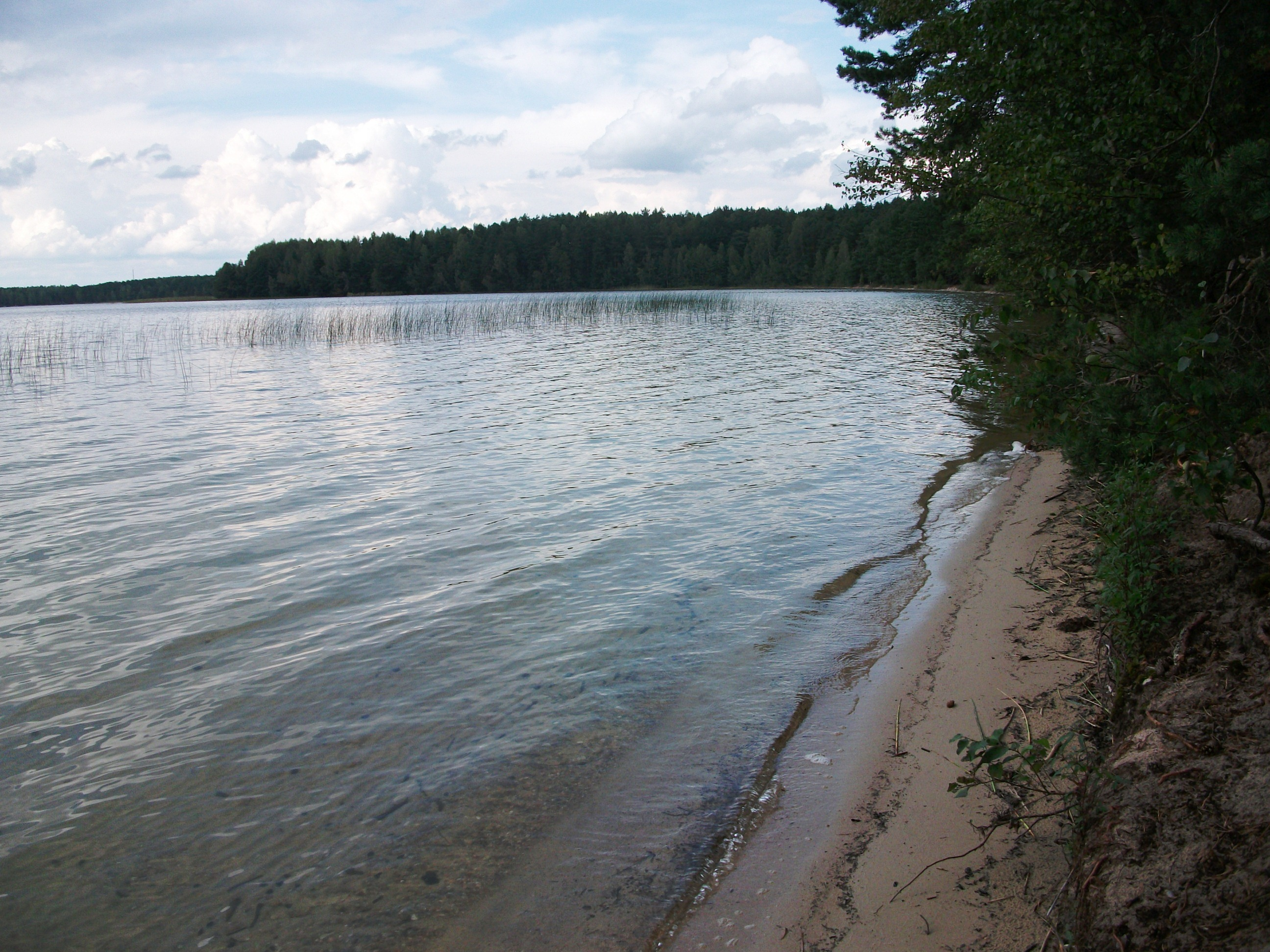 Bielaje Lake, Miadziel district, Belarus